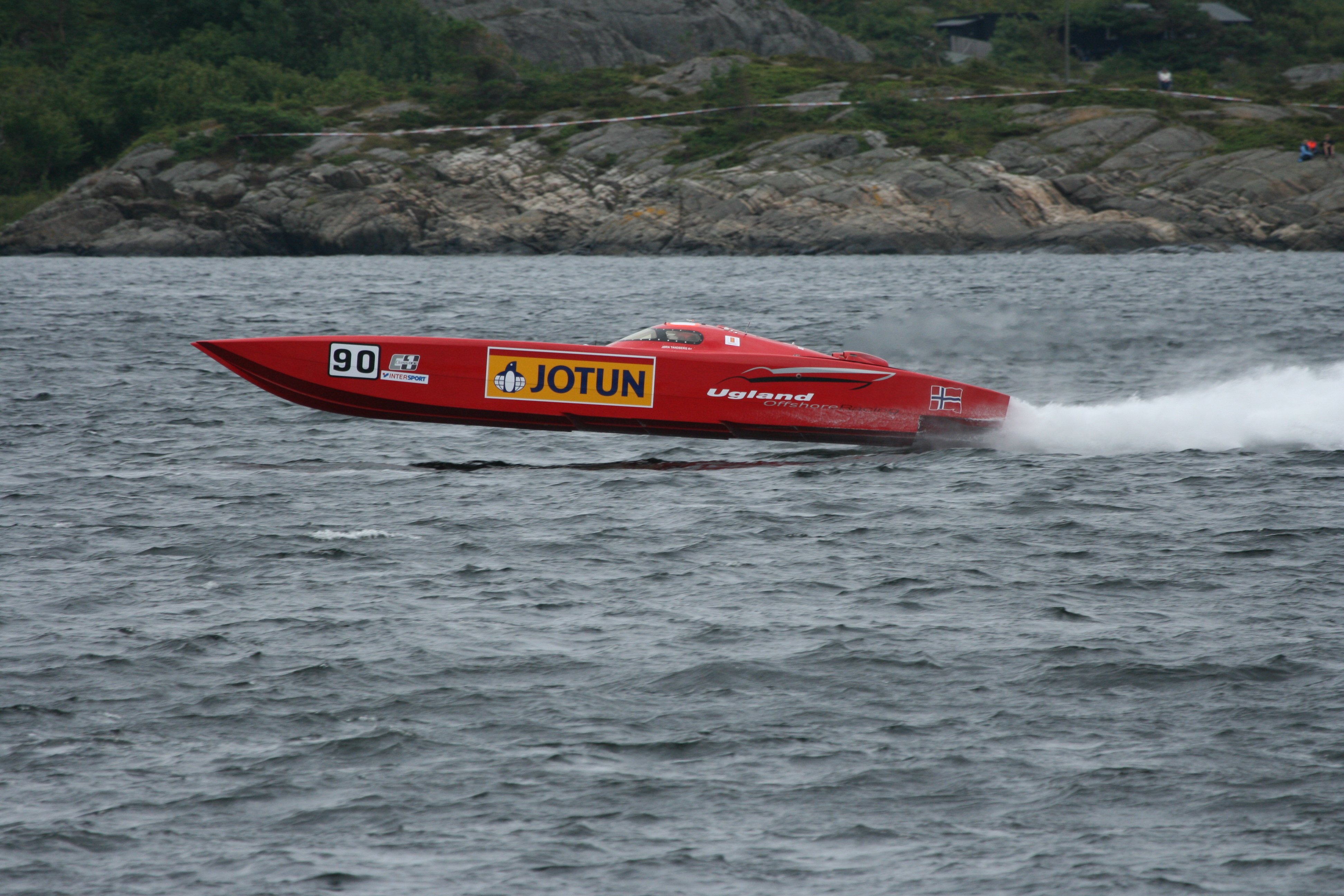 Norwegian powerboat Jotun in Class 1 race in Arendal, Norway 2007. "Jotun 90" with Christian Zaborowski and Jørn Tandberg.